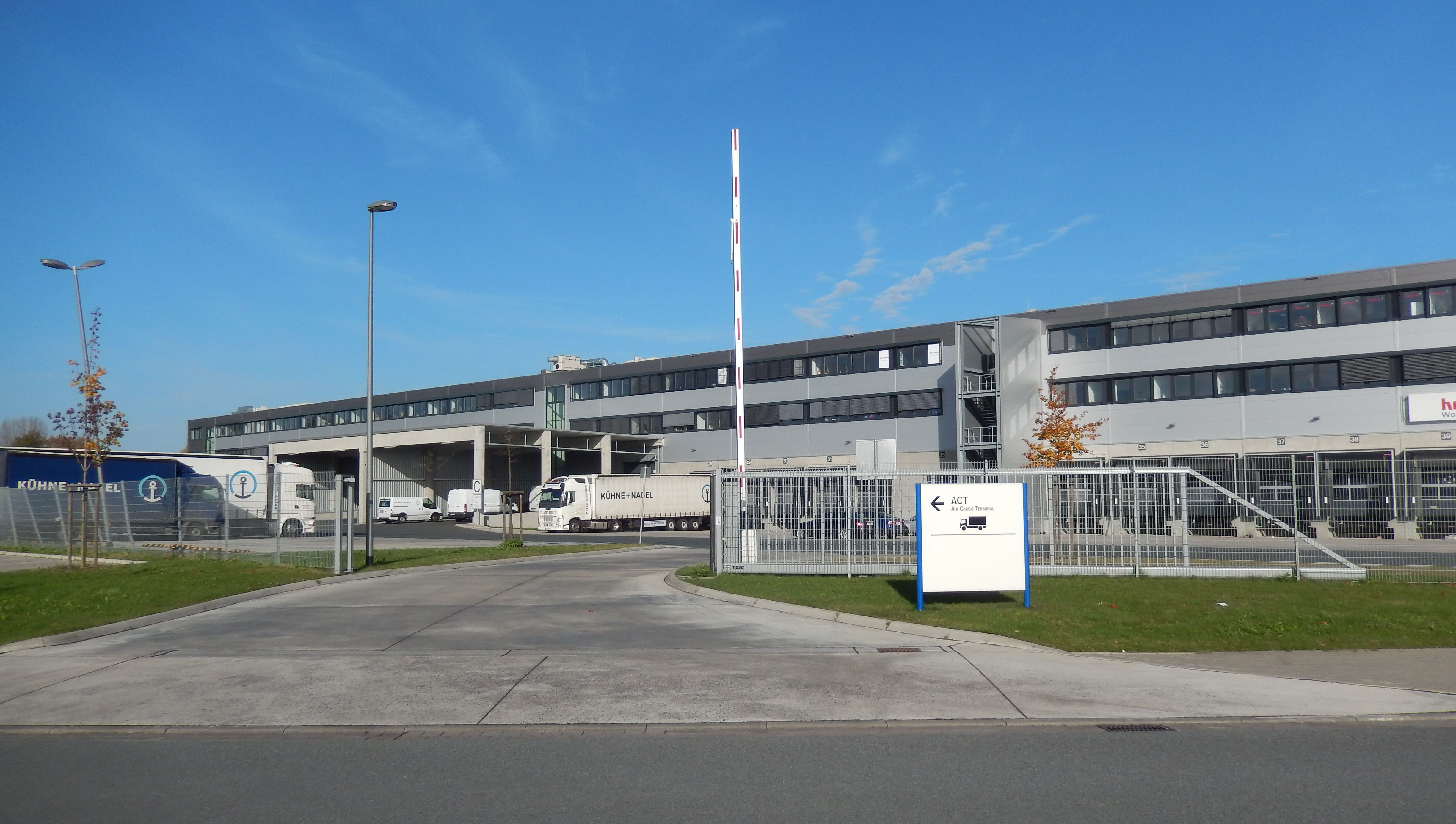 Air Cargo Terminal in Hannover-Langenhagen, Germany.